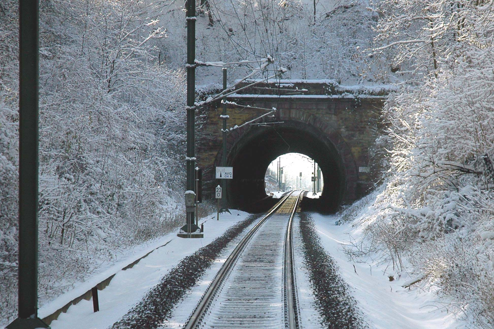 tunnel of Gölshausen of the Kraichgaubahn.